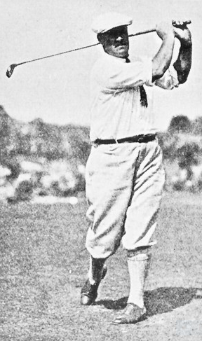 Canadian professional golfer Charles Murray (1882-1938)in the follow through, c. 1915